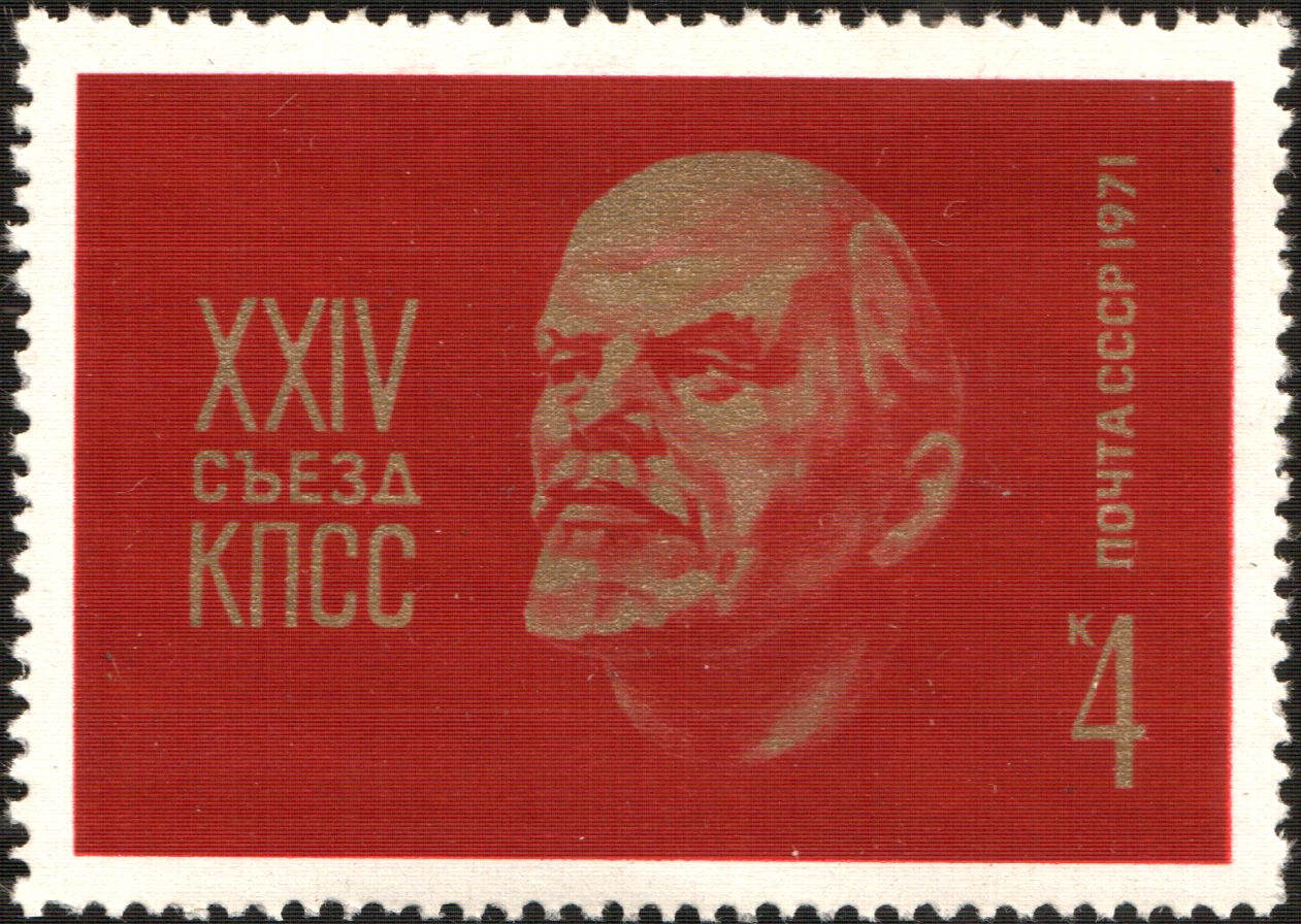 USSR stampː Sculptured Head of Lenin (Anatoly Belostotsky and Aelius Fridman). Seriesː 24th Congress of the Communist Party of the Soviet Union, Moscow (1971.03.30-1971.04.09)